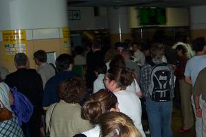 Blackout: Interior of Toronto Union Station during the en:2003 North America blackout (c) Jason Pang 2003